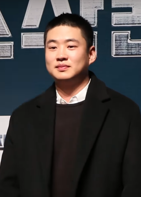 Ahn Jae-hong, 2017